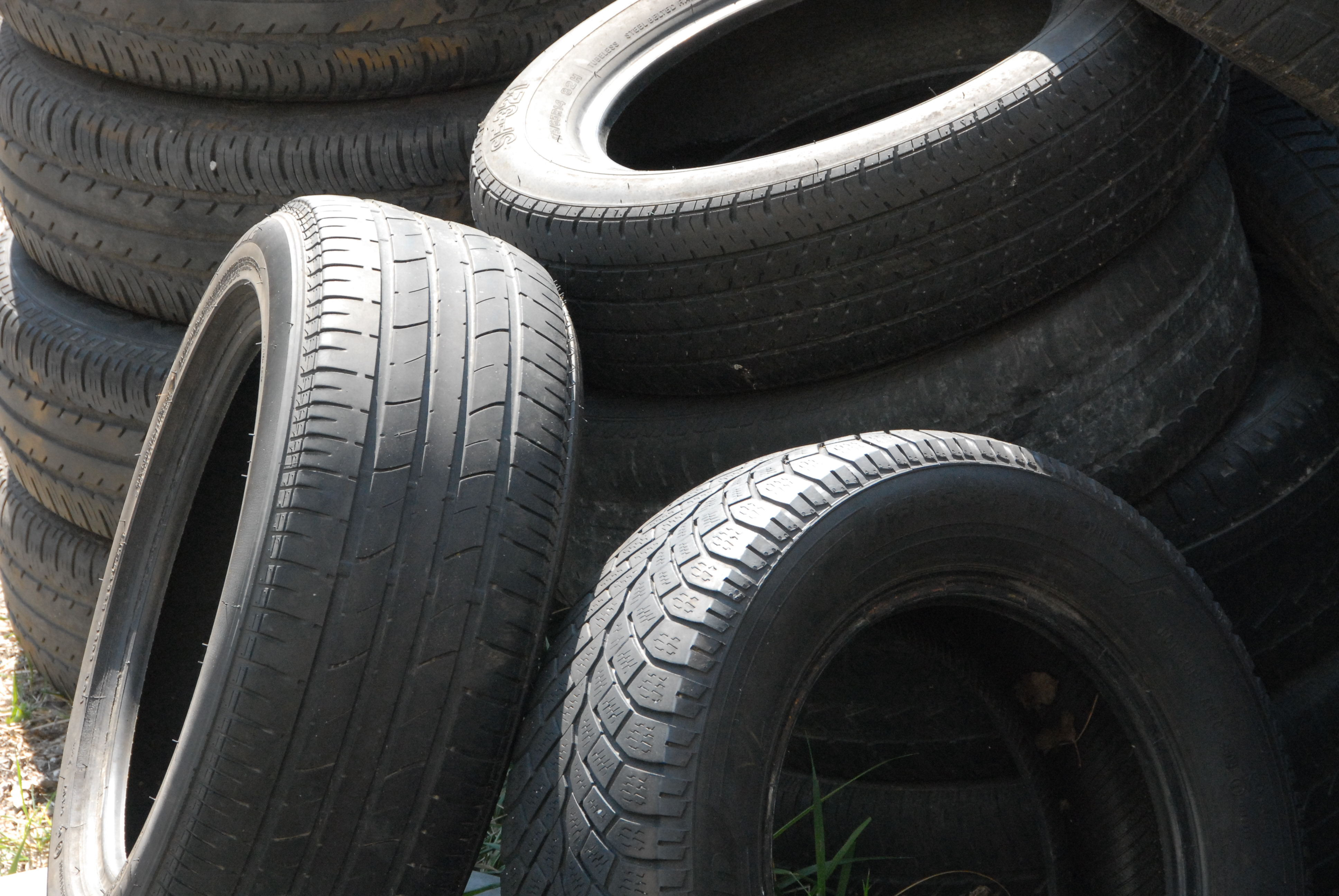 Used tyres. The water collected in tyres that are stored in the open provide excellent breeding grounds for Asian tiger mosquitoes. The used tyre trade contributed greatly to the spread of this mosquito species.